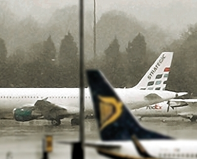 Luxemburg Strategic Airlines Airbus during a snow shower at Manchester Airport.